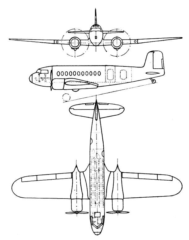 Breguet 470 3-view drawing from L'Aerophile April 1937